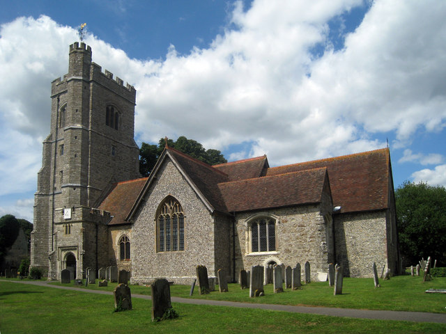 St Peter's Church, Market Place, Charing, Kent Grade I listed